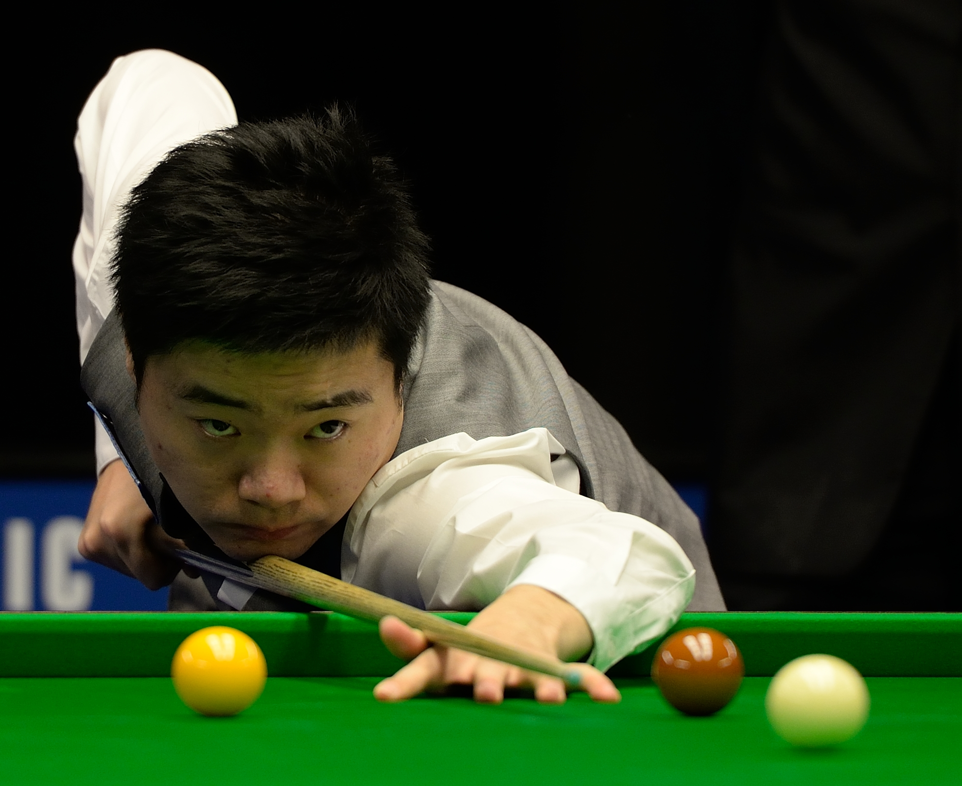 Picture taken in Berlin during the Snooker German Masters in 2015. Ding Junhui.